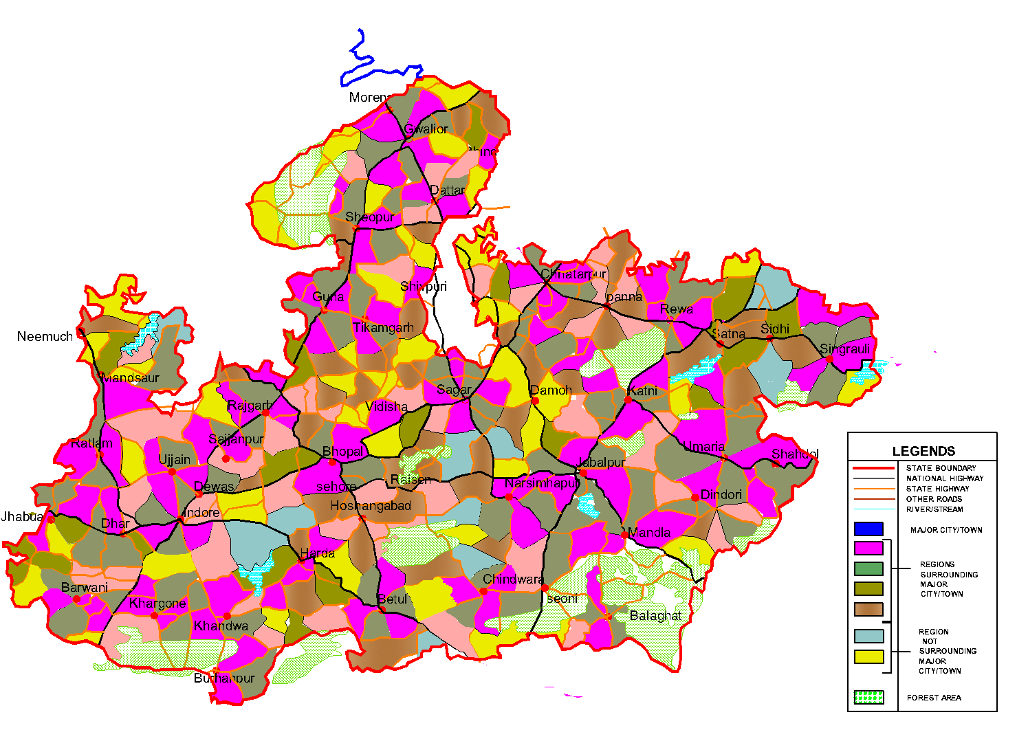 REGIONAL MODULE REQUIRED FOR UNIFIED DEVELOPMENT OF A REGION